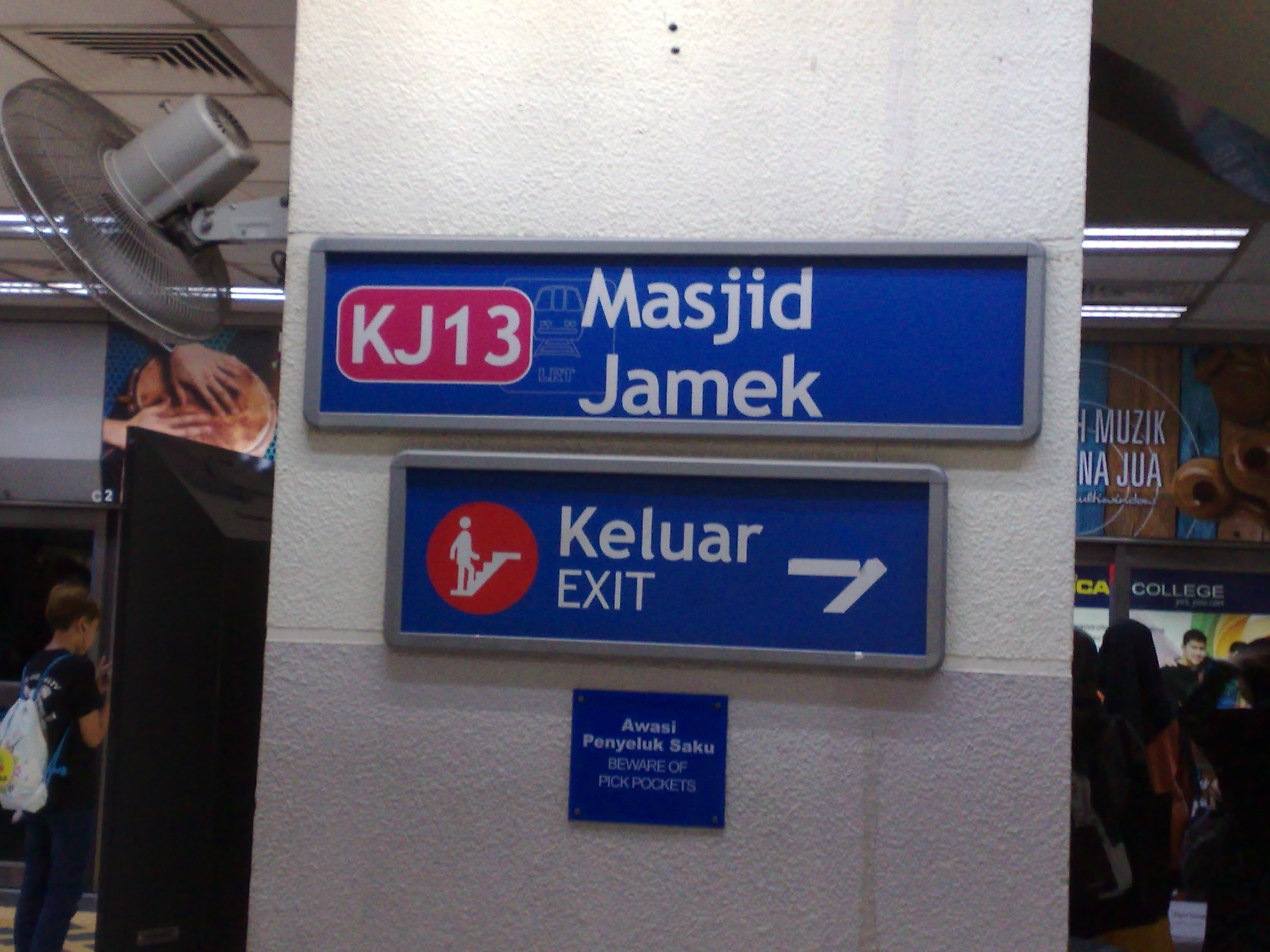 Masjid Jamek LRT